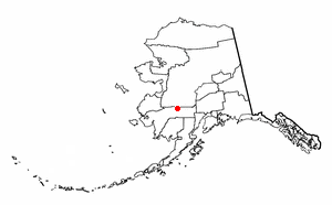 Adapted from Wikipedia's AK borough maps by Seth Ilys.